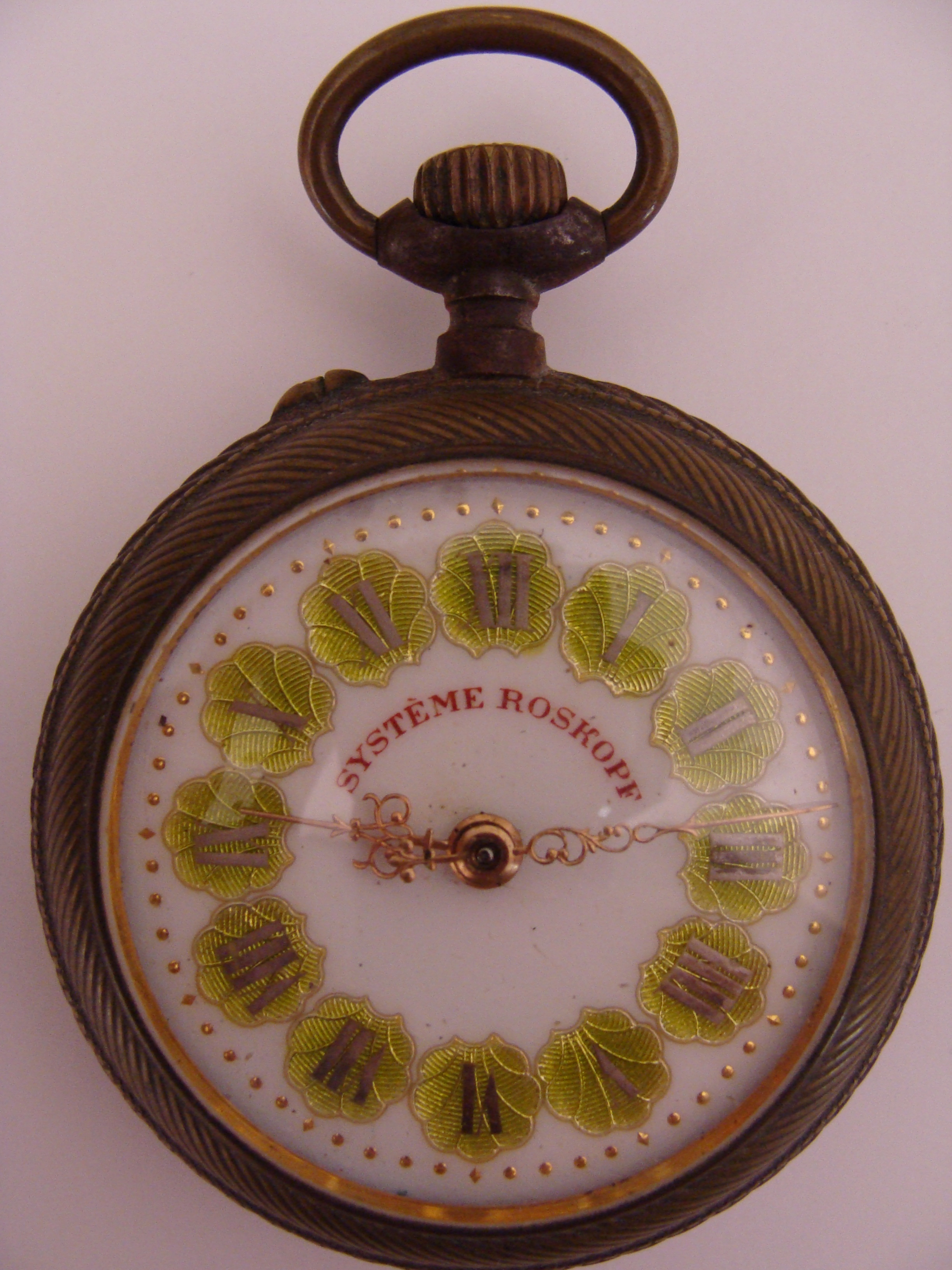 Pocket watch "system Roskopf", end of XIX century